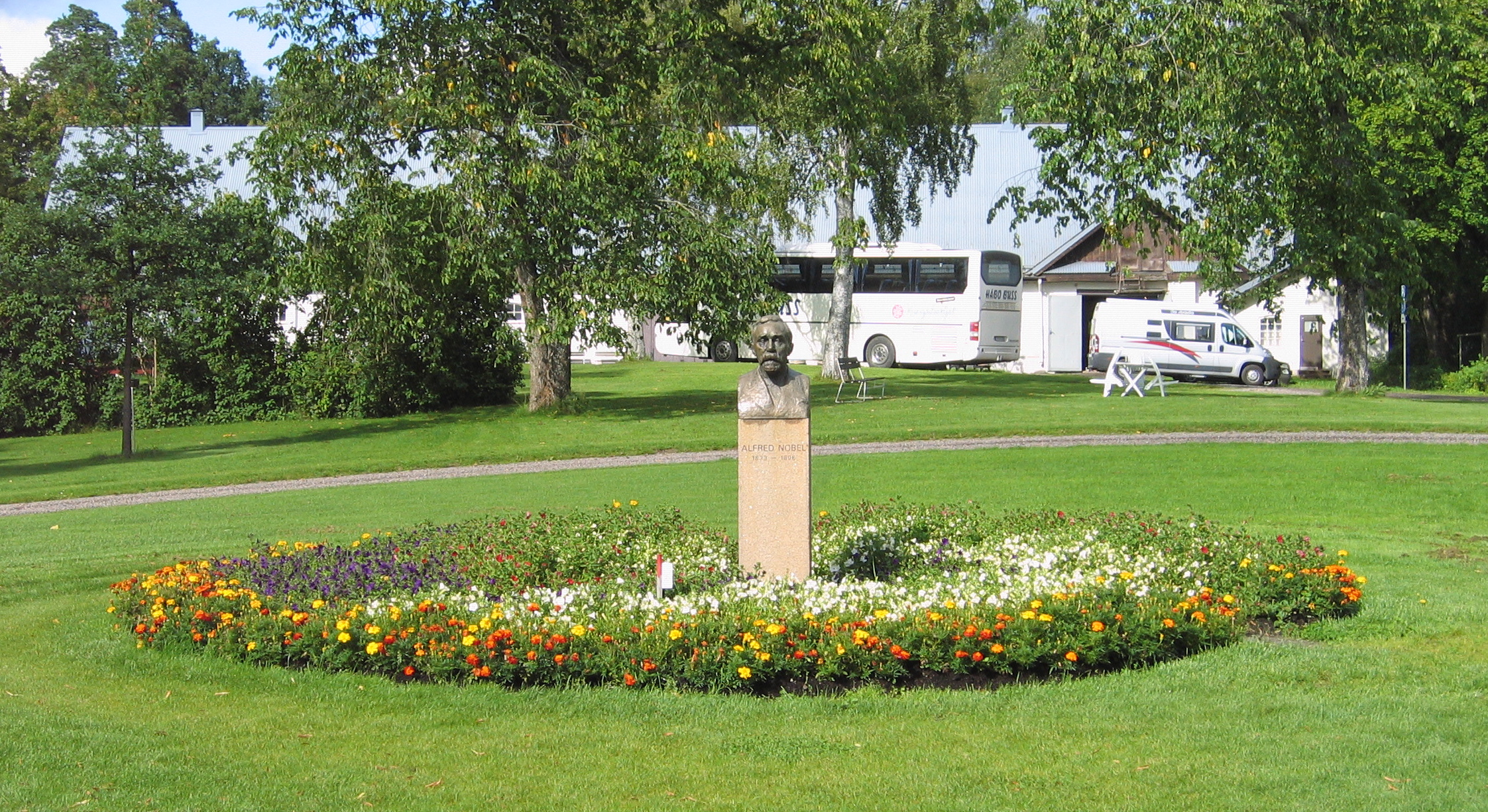 Bust of Alfred Nobel outside Björkborn mansion